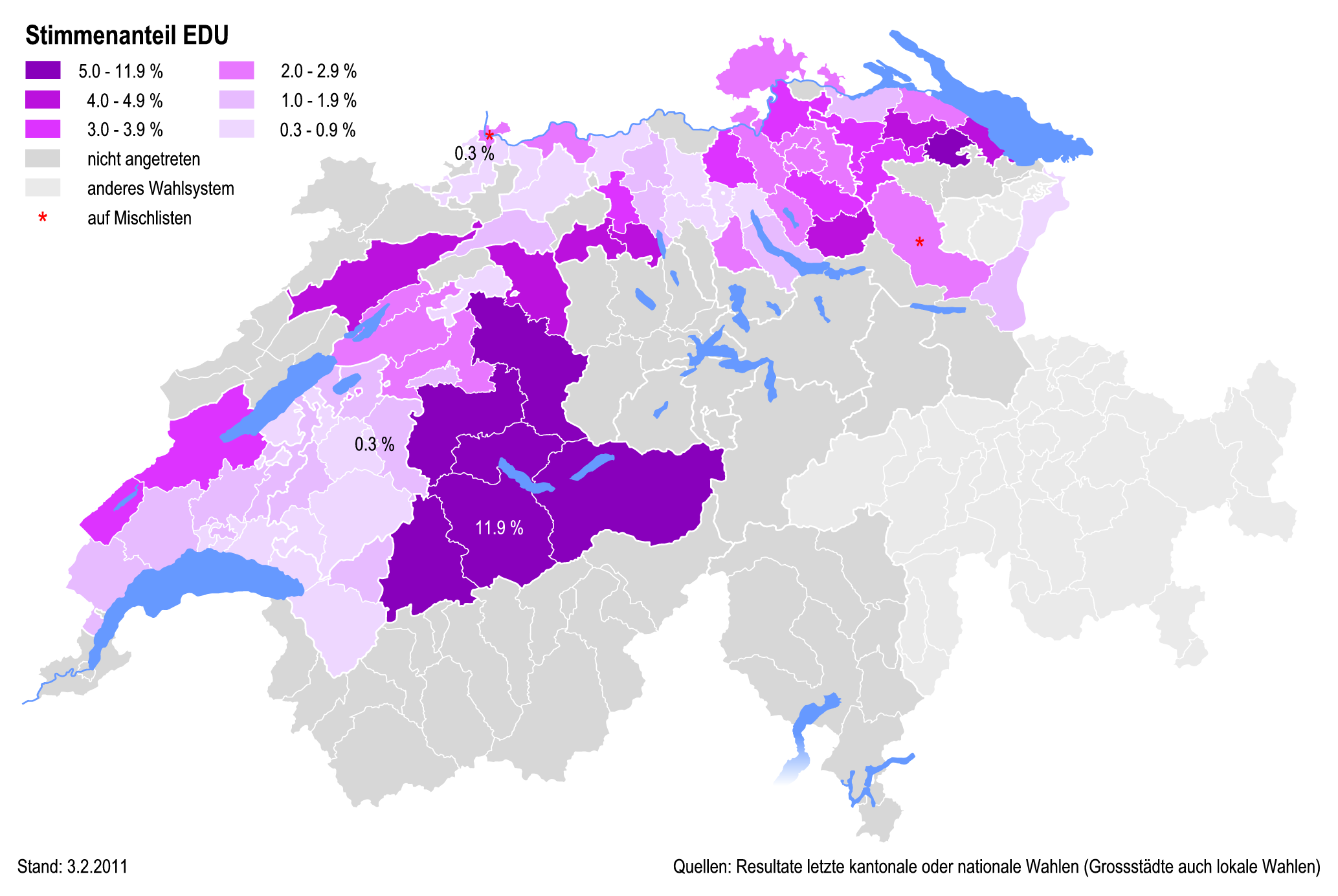 Geographical overview on the votes share of the Federal Democratic Union of Switzerland in the districts.